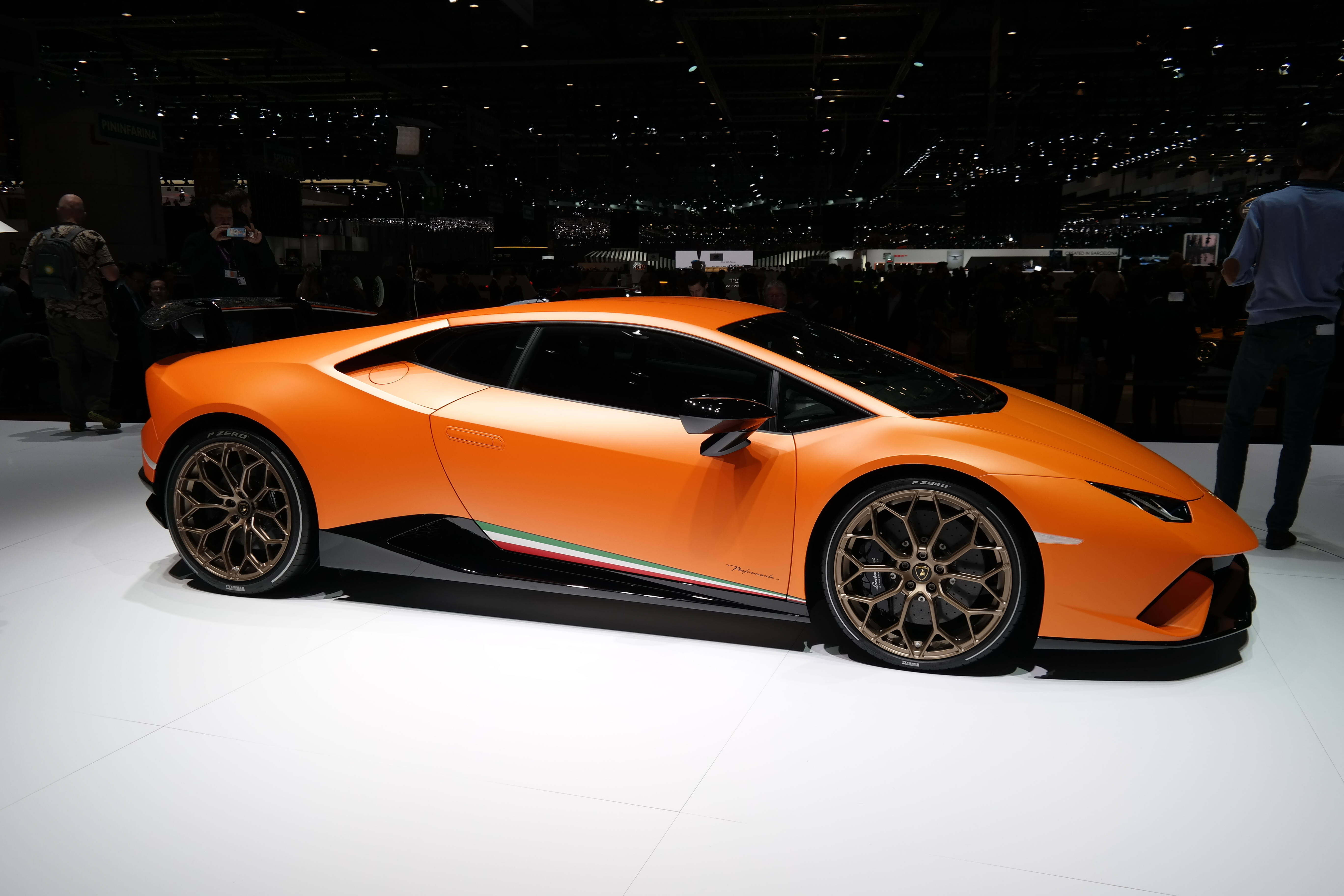 Geneva Motor Show 2017 (photo taken on the first press day)